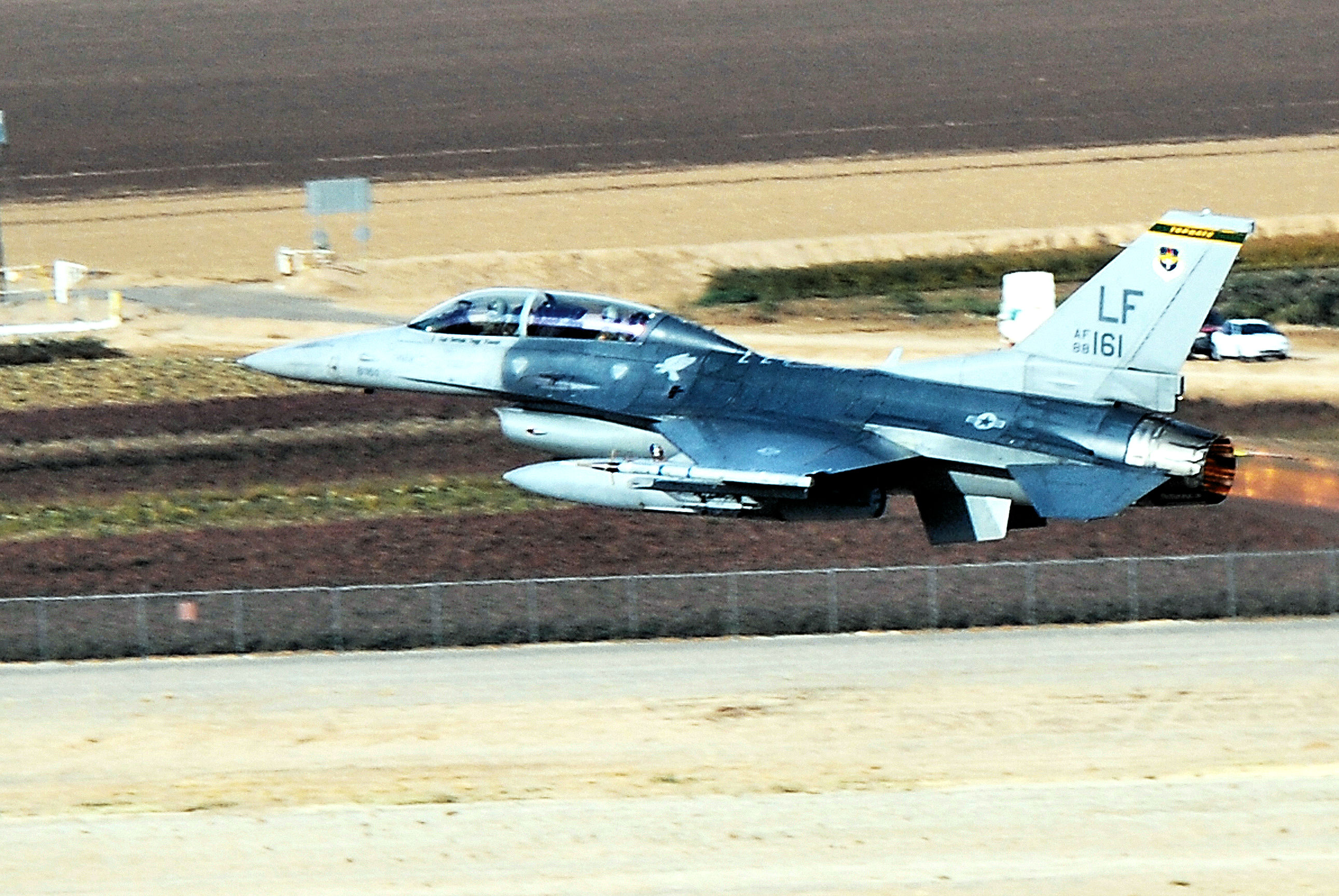 A 310th Fighter Squadron F-16 Fighting Falcon takes to the skies on December 15th during the mass launch exercise. (U.S. Air Force photo/Senior Airman Tracie Forte)